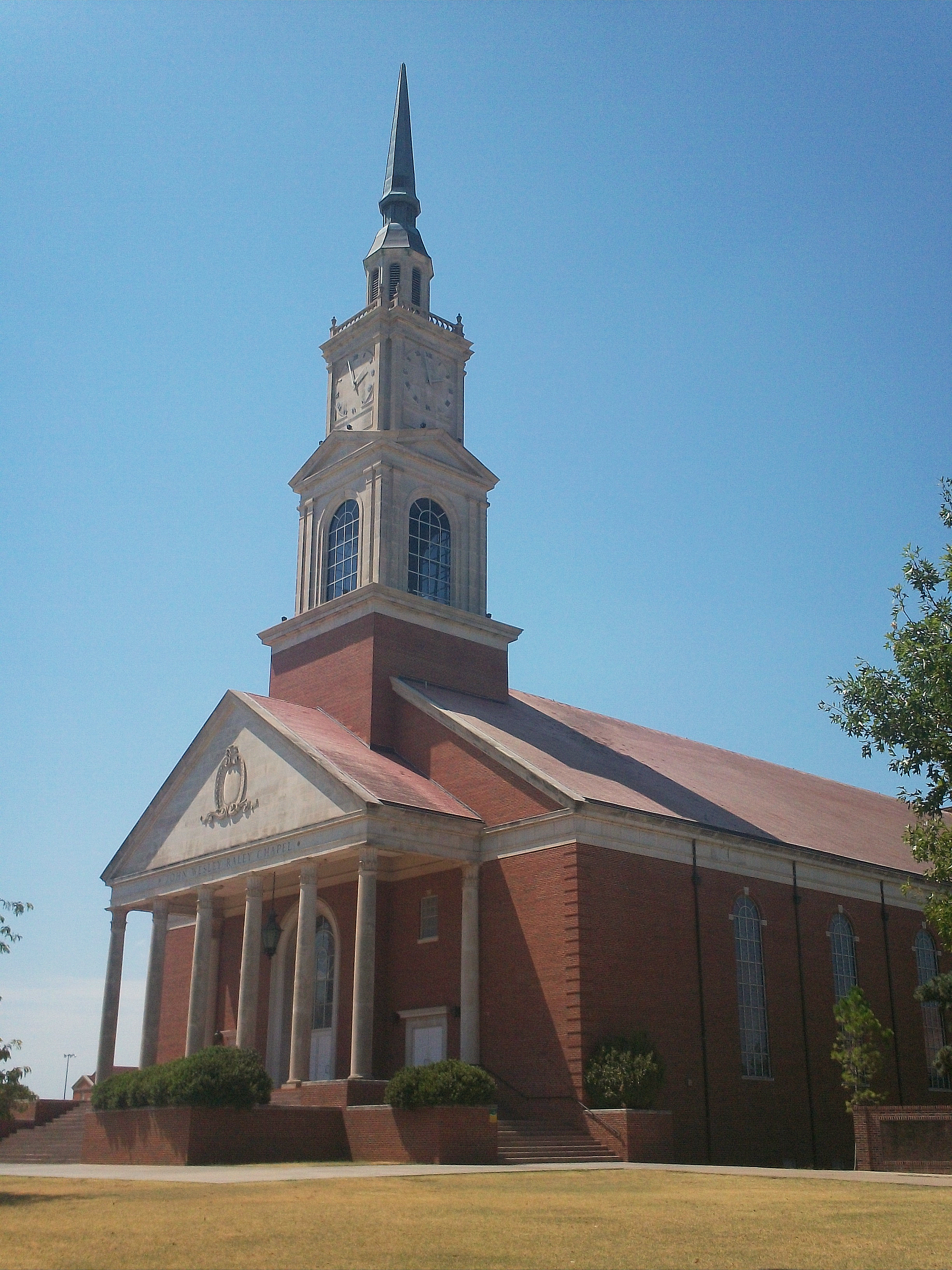 A large chapel on the campus of Oklahoma Baptist University